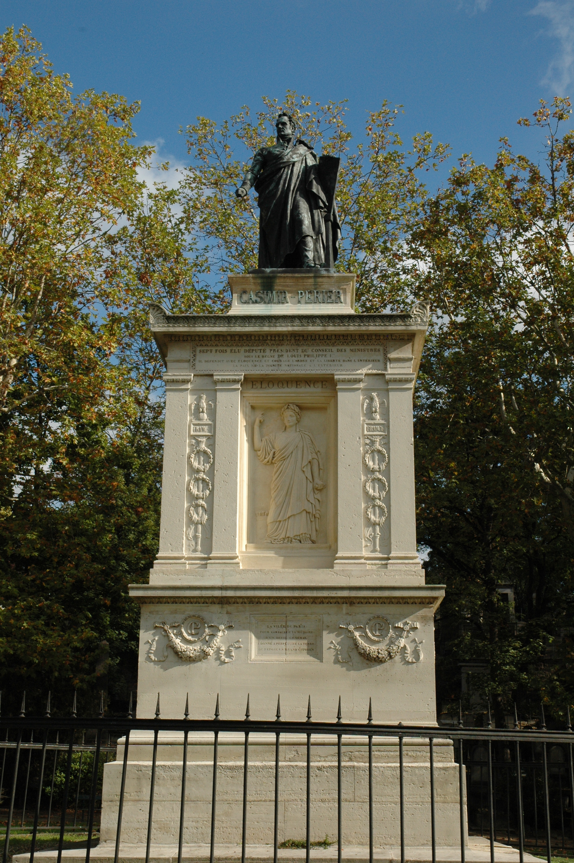 Casimir Perier’s Gravesite in Paris’s Pere-Lachaise Cemetery, 2005. Picture by Lawson Brannan